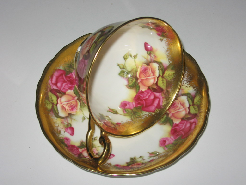 Teacup and saucer (6) Golden Rose Royal Chelsea Bone China Made in England